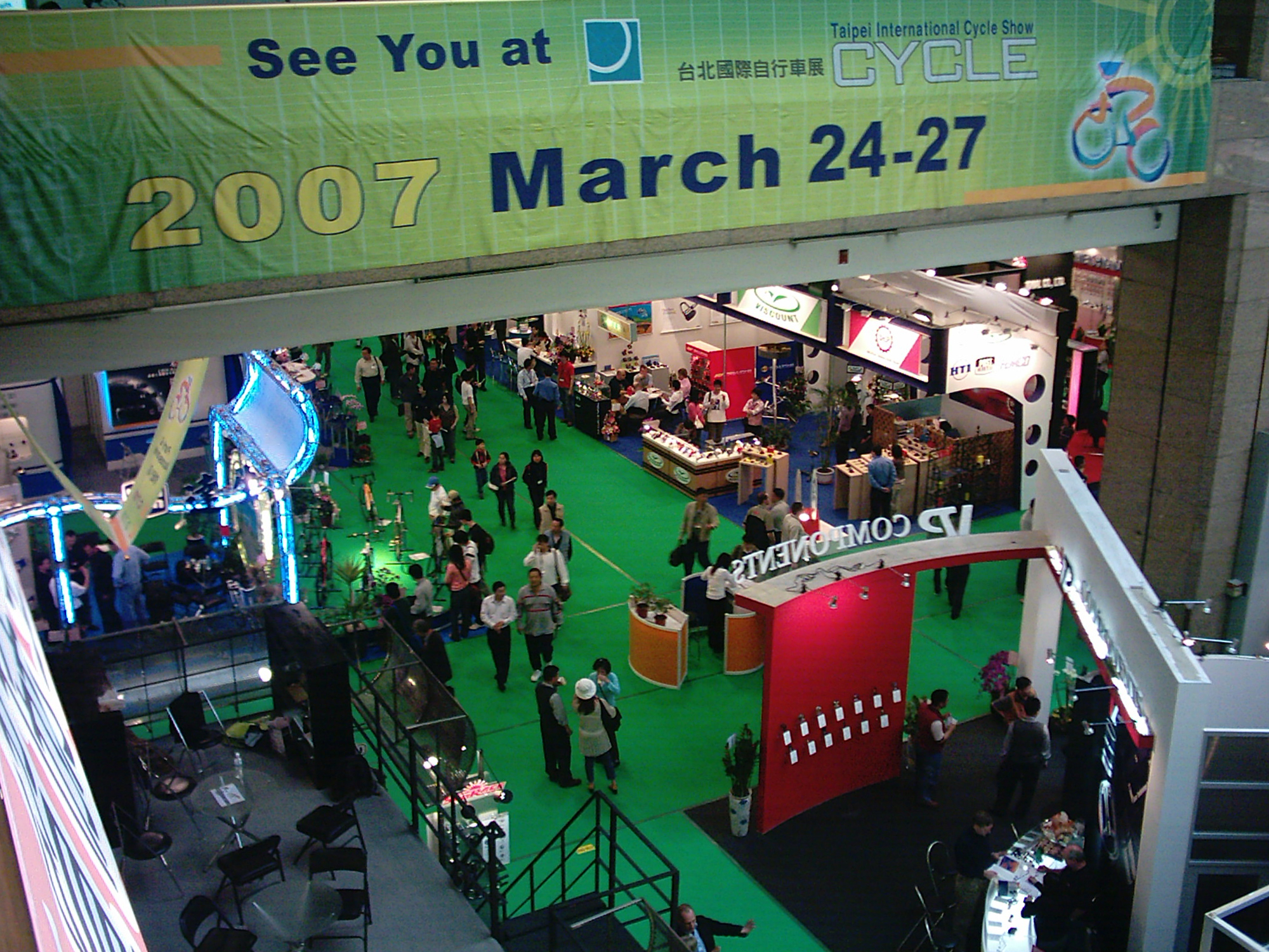 2006 Taipei Cycle Show.